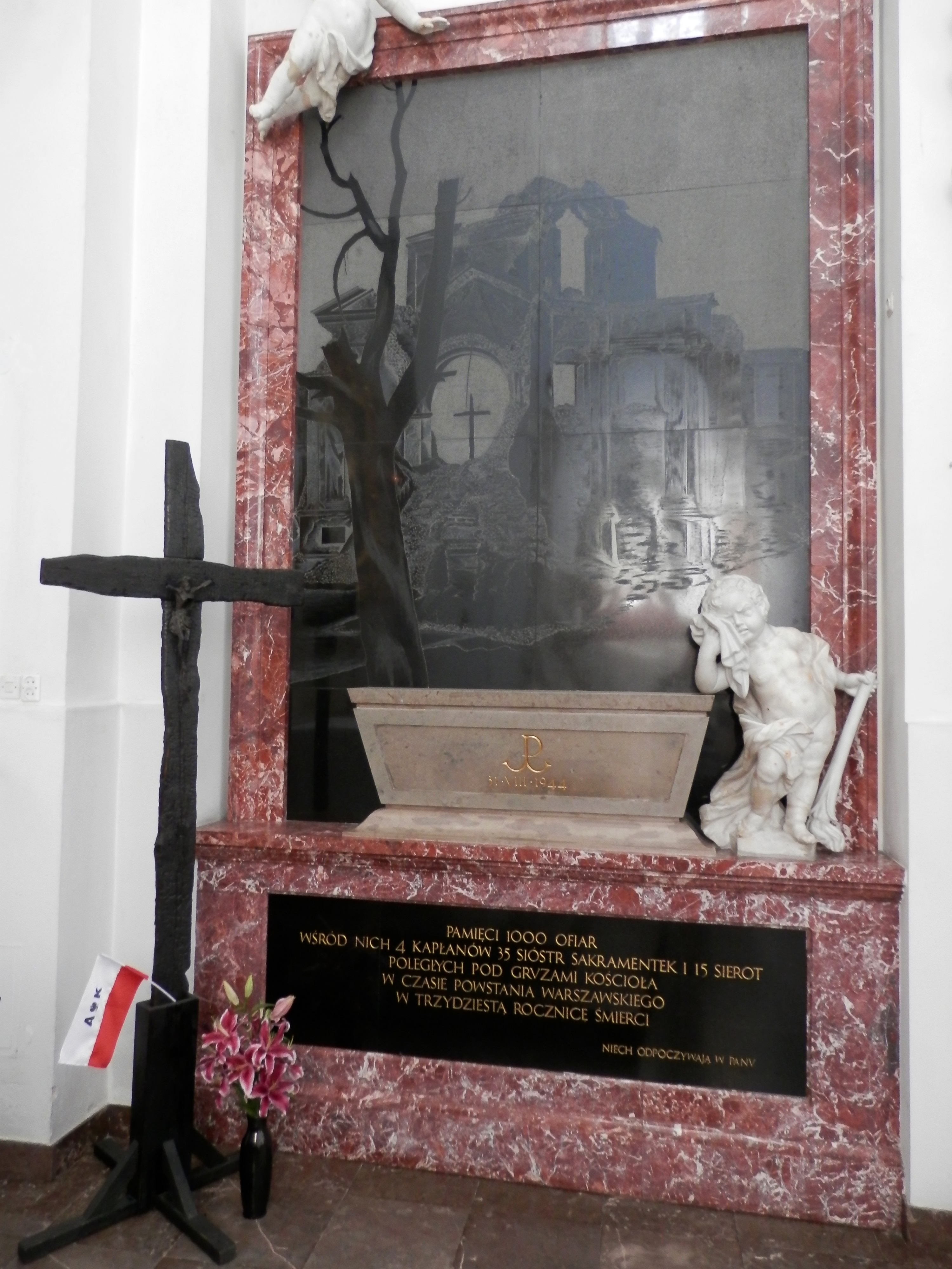 Saint Casimir church in Warsaw, at the New Town Market Square. Memorial plaque